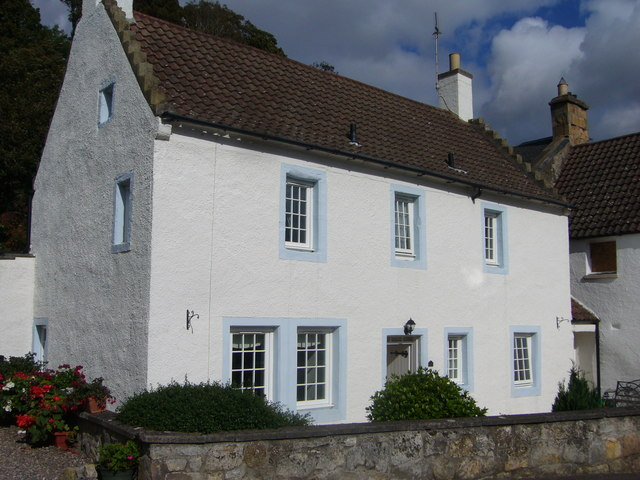 18thC house, Limekilns